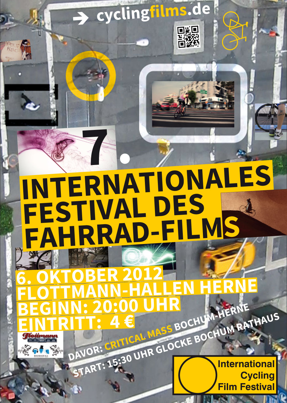 Official poster of the 7th International Cycling Film Festival 2012